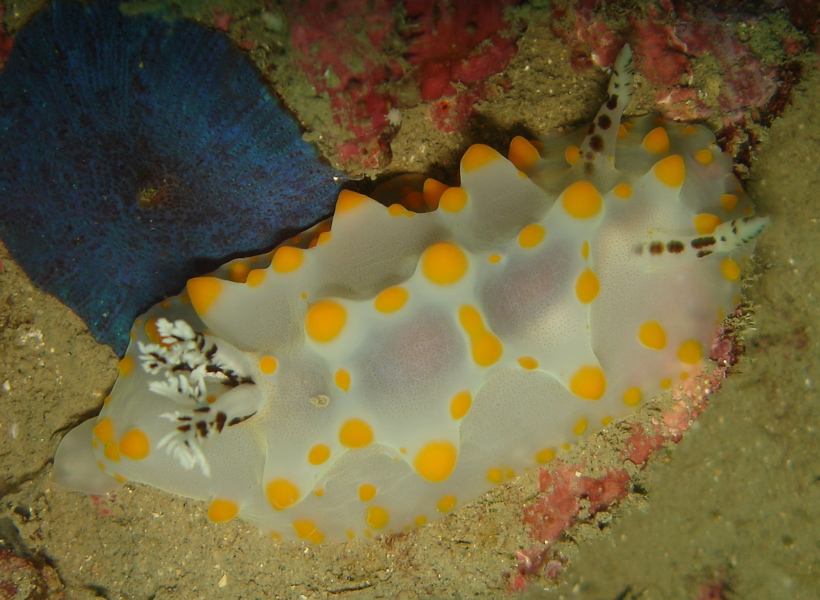 Uploaded with the Flock Browser